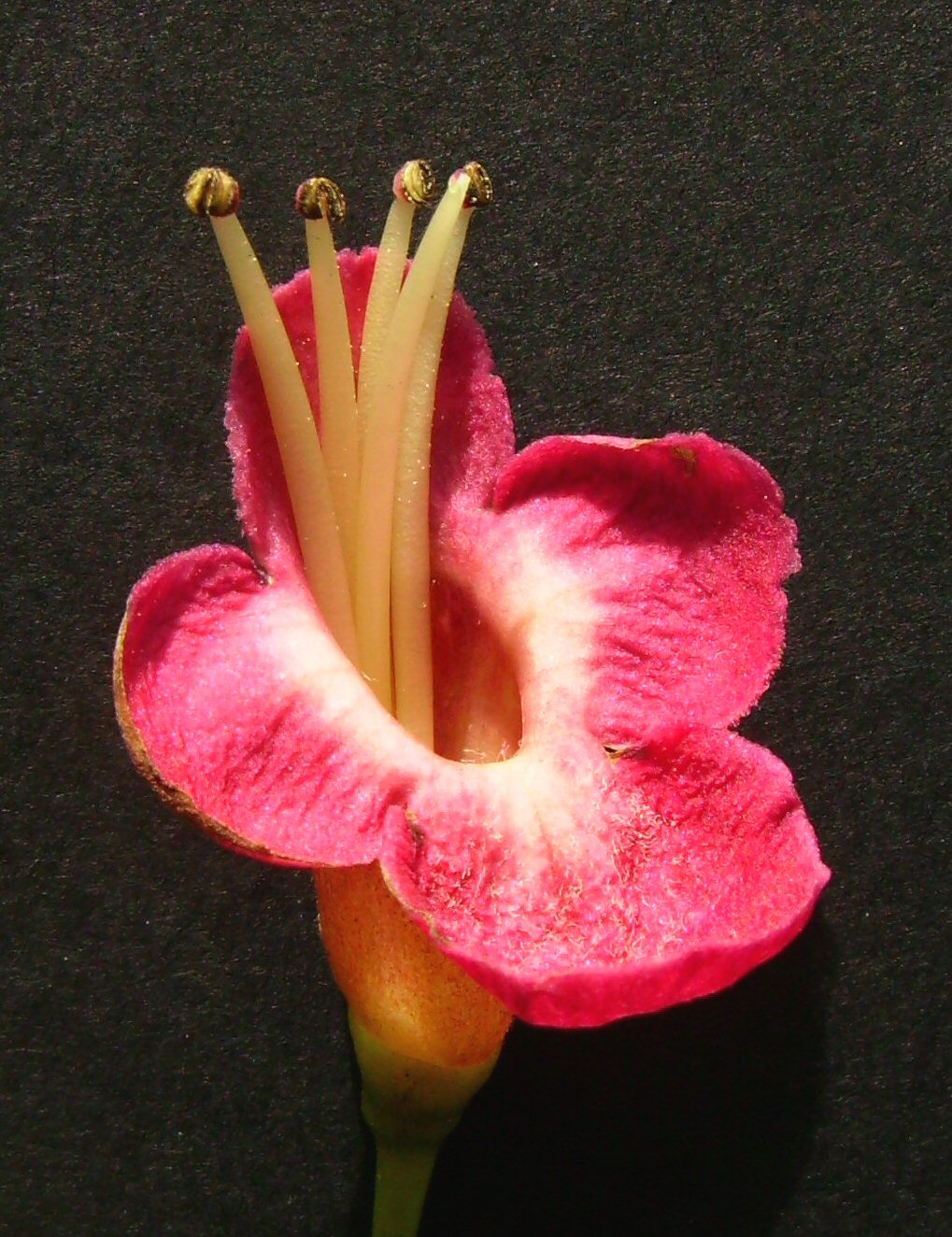 Vitex lucens (Puriri) flower from Auckland, New Zealand. This work has been released into the public domain by its author, Graham Bould. This applies worldwide. In some countries this may not be legally possible; if so: Graham Bould grants anyone the right to use this work for any purpose, without any conditions, unless such conditions are required by law.